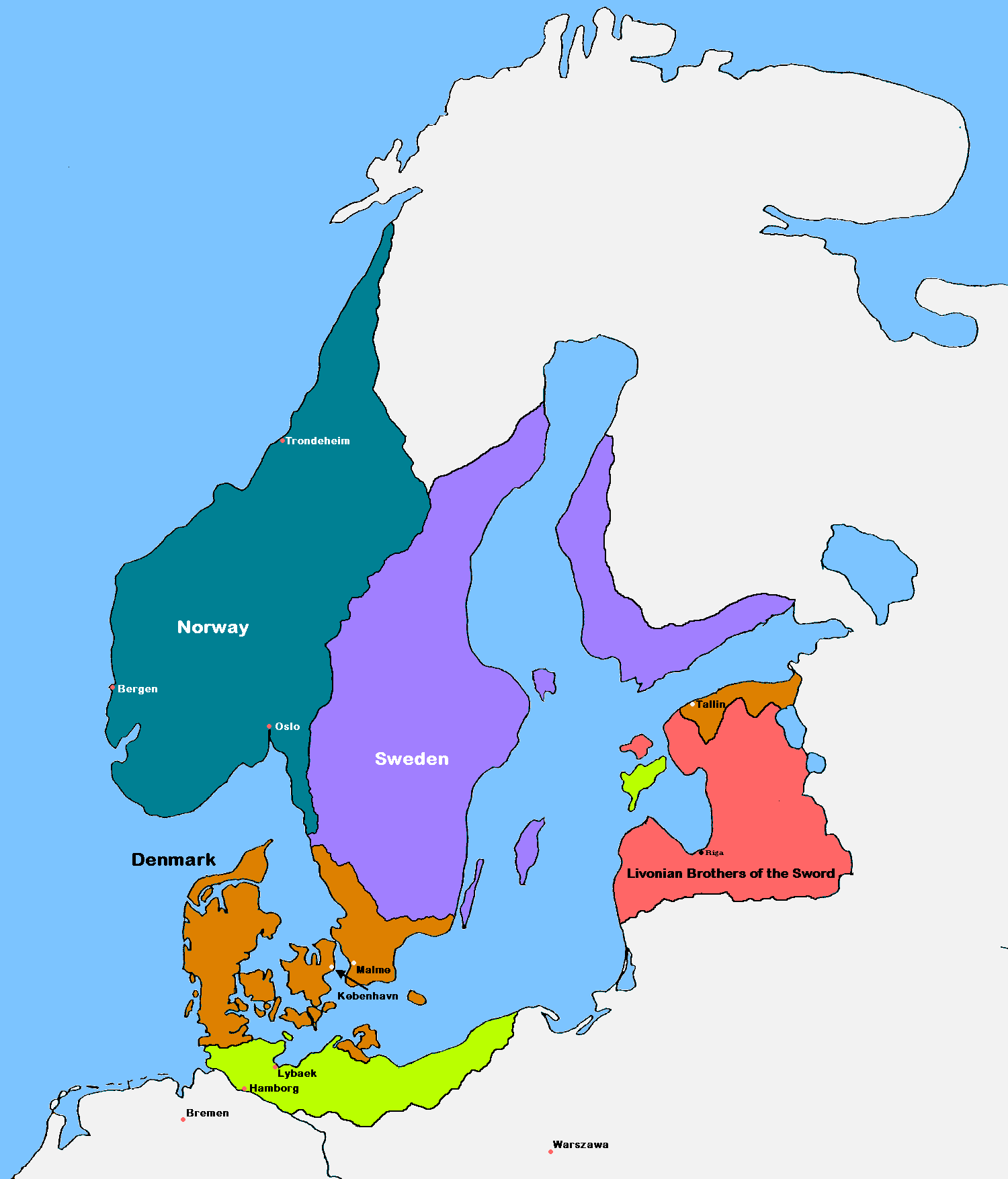 Update of the historical and political map, created in 2005 by Kasper Holl. It is a compressed format, has an easier colour scheme and has greater sized labels. NB on accuracy: Sweden did not reach this size until after the 1330s, when colonialization of Västerbotten started. Swedish colonialization of Finnish coast started before 1250. Sweden lost Gotland to Denmark in 1361. Trondheim has a wrong placement on map. Denmark Norway Sweden The Sword Brethren Territories conquered by Denmark in 1219